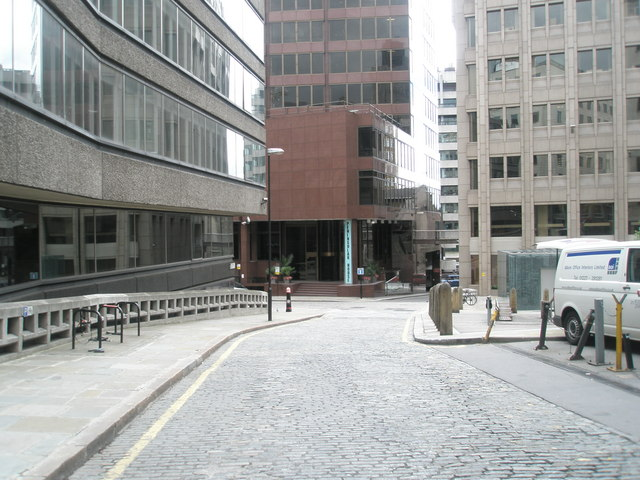 An edible address every child knows Pudding Lane, near The Monument.